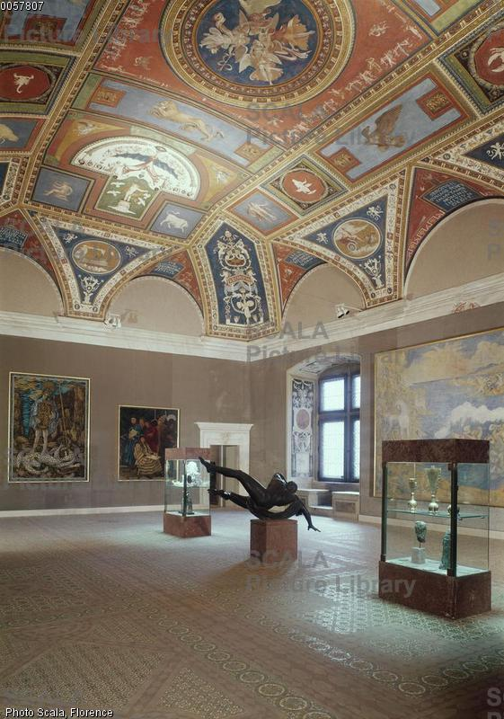 View of the Hall of the Popes Vatican Borgia Apartments